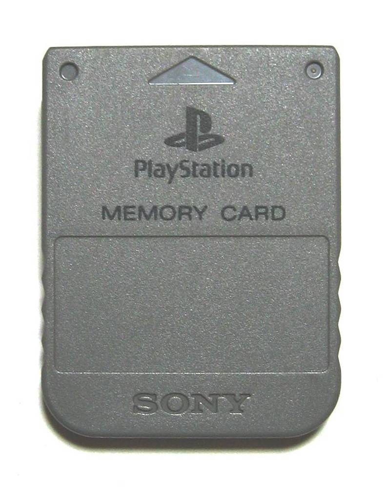 Memory Card for PlayStation (SCPH-1020)